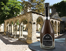 Crémant de Bordeaux Blanc Brut LES CORDELIERS